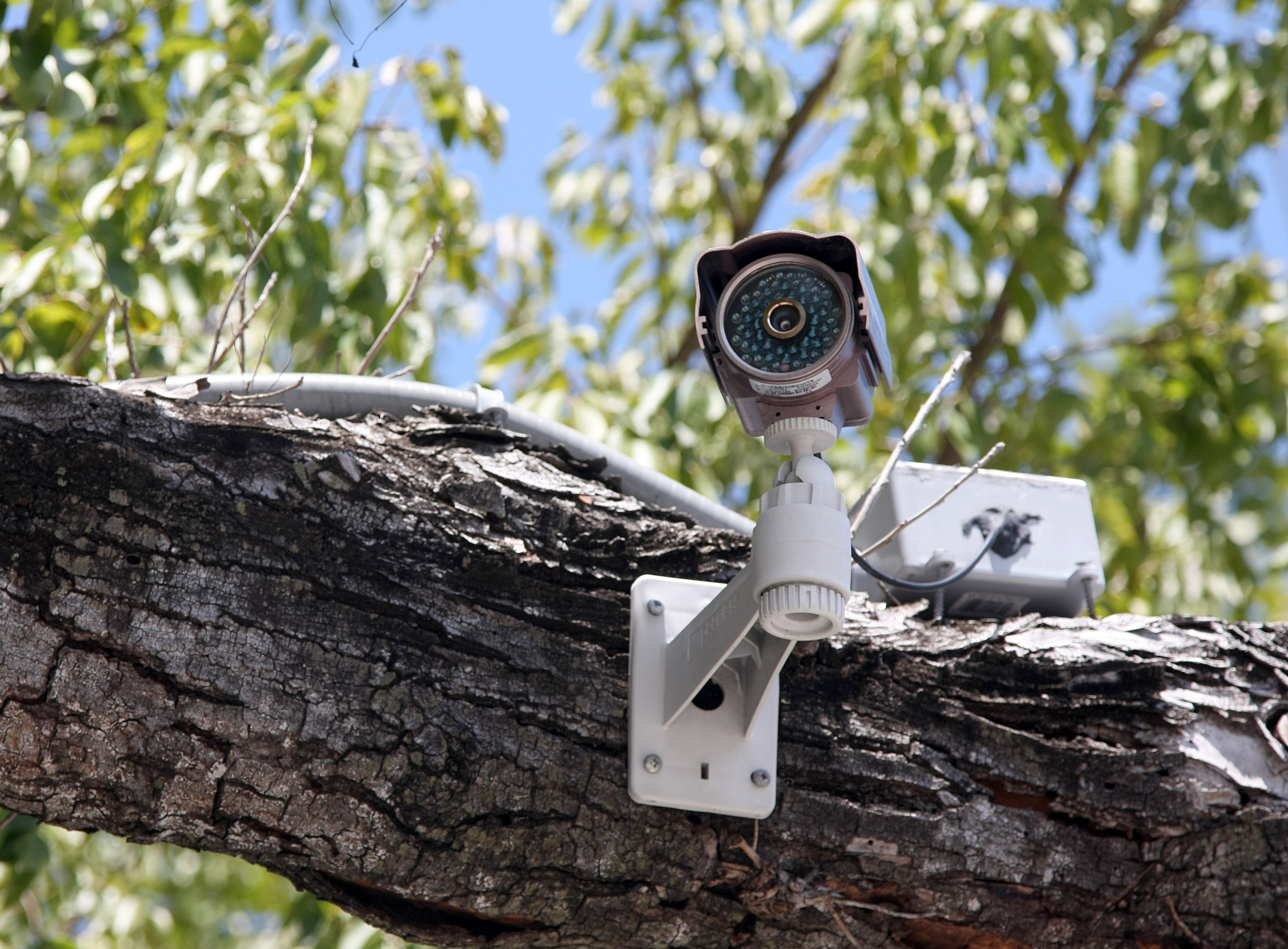 A closed-circuit television camera in a tree, Key West, Florida.